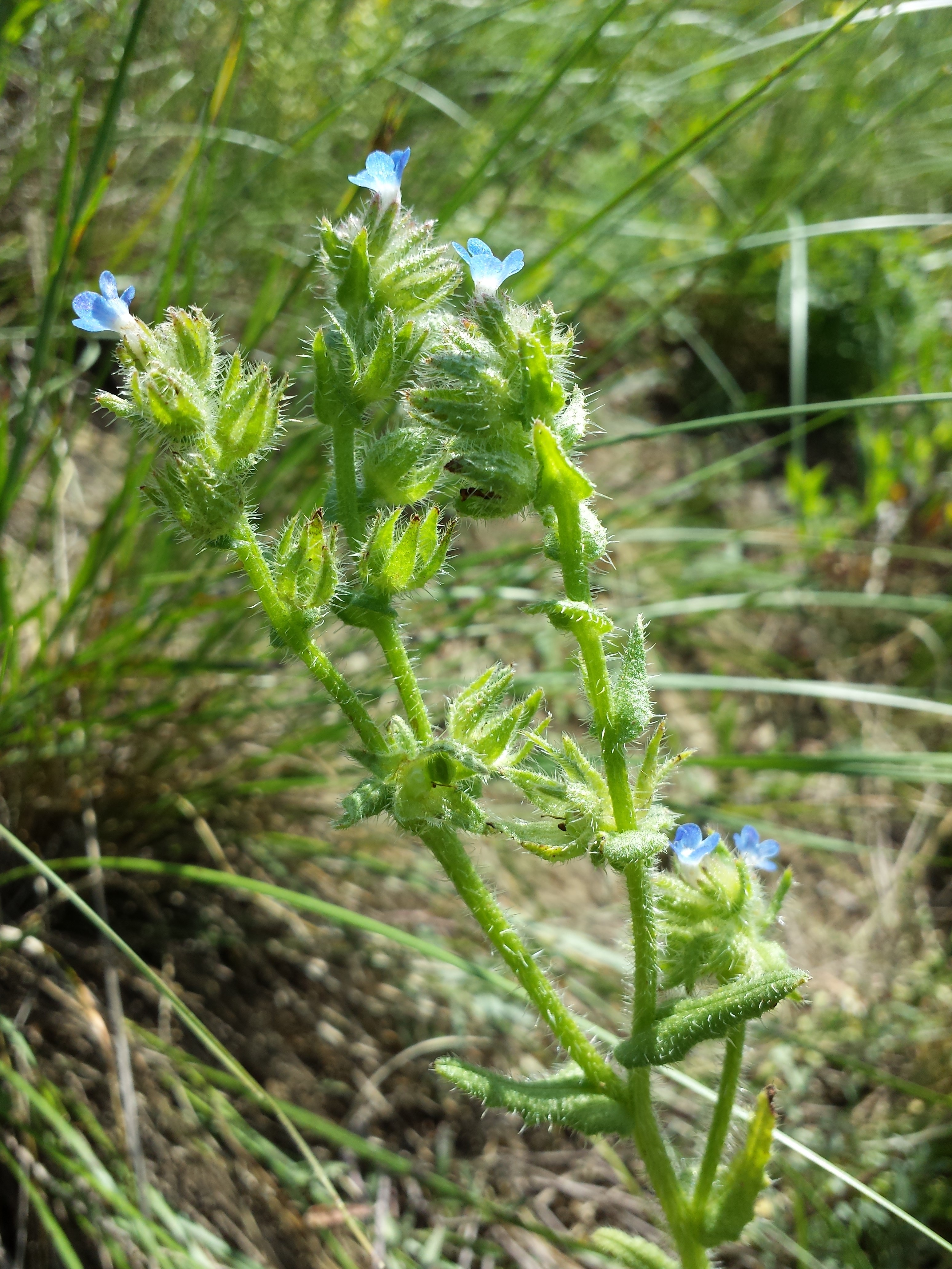 Habitus Taxon: Anchusa arvensis (sensu Fischer et al. EfÖLS 2008 ISBN 978-3-85474-187-9) Location: Haulesbergen, Ulrichskirchen-Schleinbach, district Mistelbach, Lower Austria - ca. 200 m a.s.l. Habitat: dry grassland over Loess